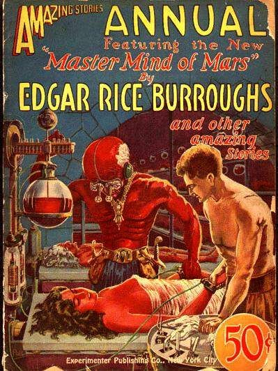 Cover of the pulp magazine Amazing Stories, featuring Master Mind of Mars by Edgar Rice Burroughs.